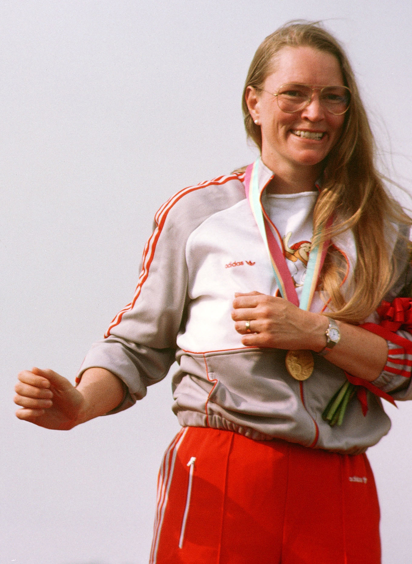 Linda Thom after receiving a gold medal in the sport pistol competition at the 1984 Summer Olympics. (excerpt from the original text)